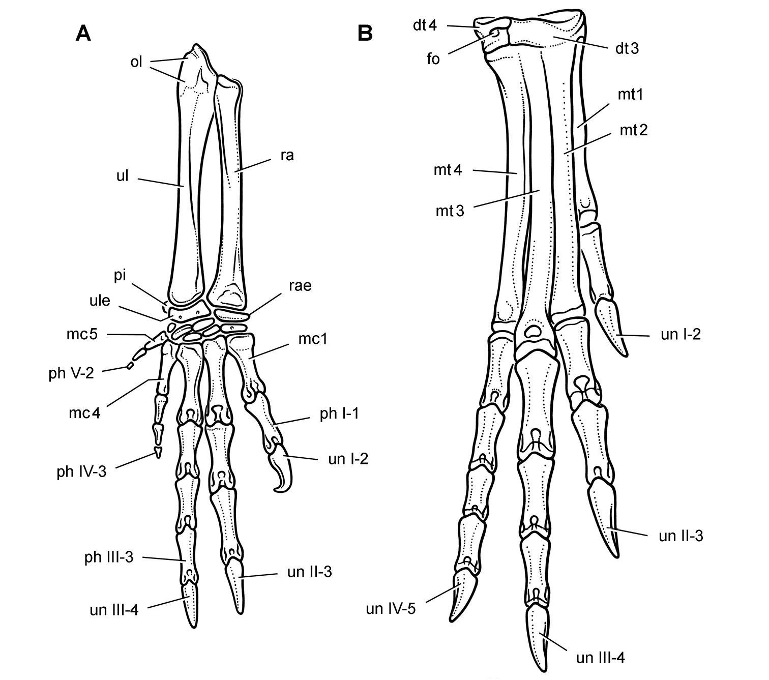 Limbs of Heterodontosaurus tucki from the Lower Jurassic Upper Elliot and Clarens formations of South Africa. Reconstructions based on an adult skeleton (SAM-PK-K1332). Right forearm, carpus and manus (A), right distal tarsals and pes (B). Abbreviations: I-V digits I-V ce centrale dc1-5 distal carpals 1–5 dt3, 4 distal tarsal 3, 4 fo foramen mc1, 4, 5 metacarpal 1, 4, 5 mt1-4 metatarsals 1–4 ol olecranon ph phalanx pi pisiform ra radius rae radiale ul ulna ule ulnare un ungual.